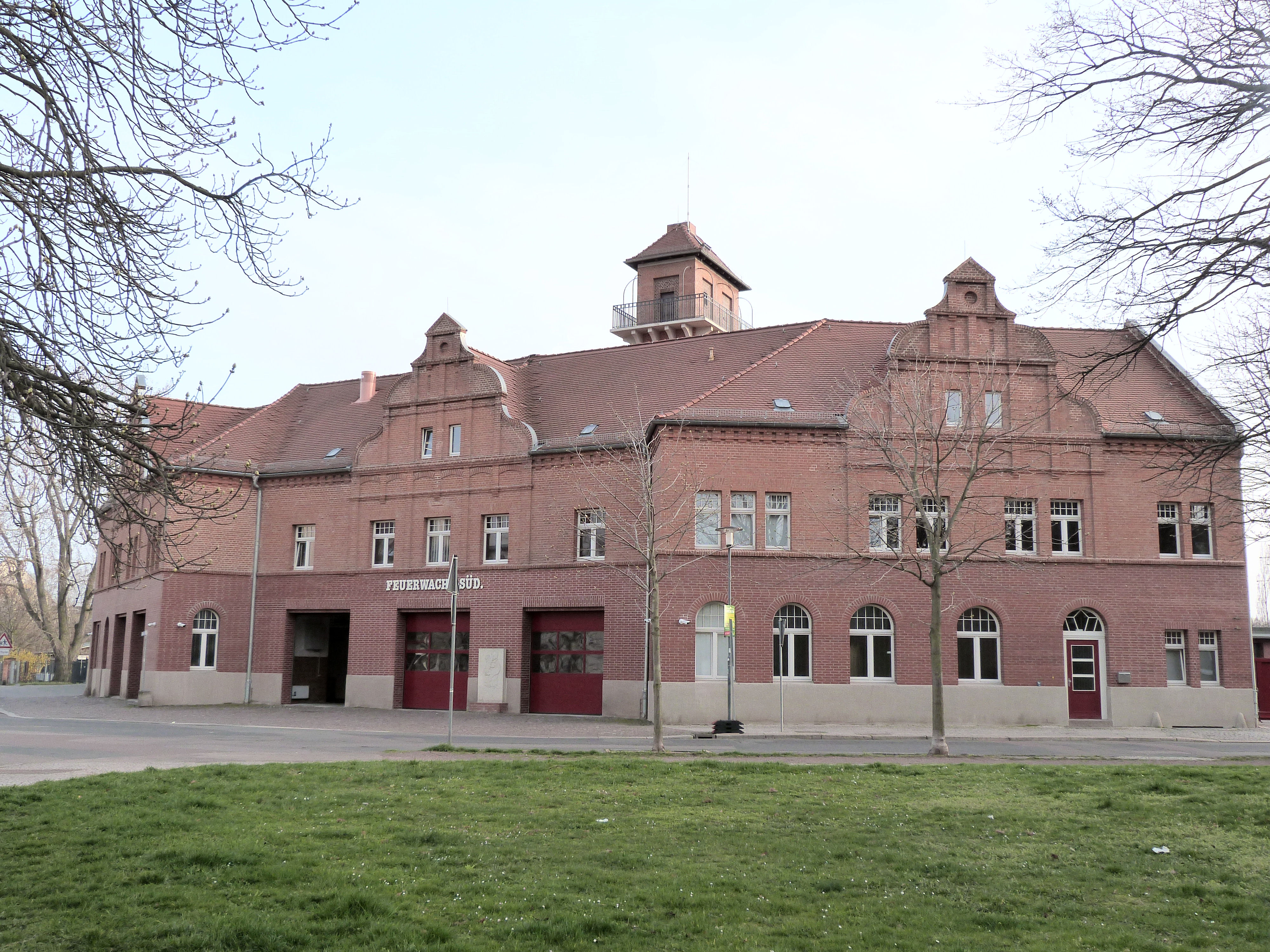 Fire station South, Liebenauer Strasse, Halle (Saale)